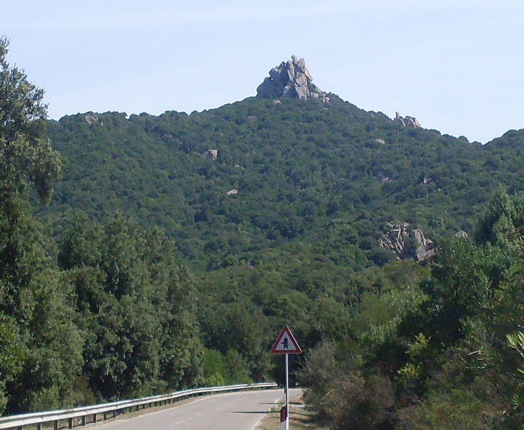 Perda Posta Intremini, Pantaleo Forest (Santadi, Sardinia, Italy)